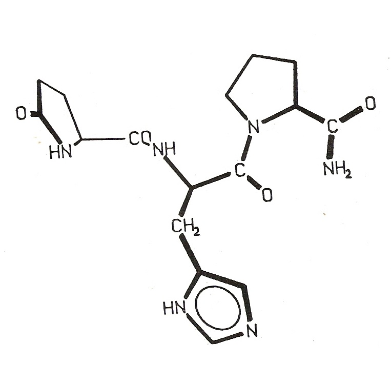 Tapering lines model of TRH